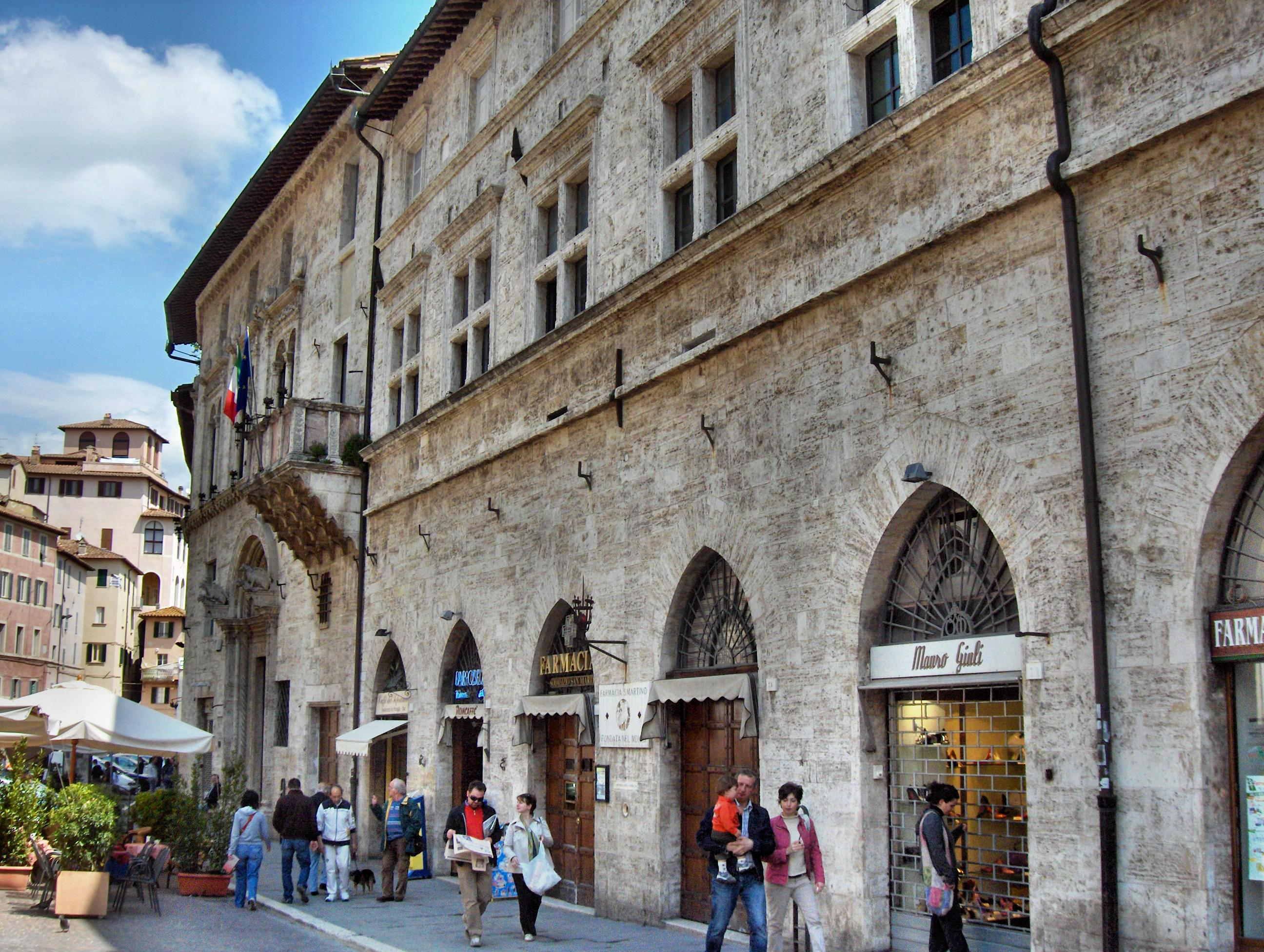 Palazzo del Capitano del Popolo, a Renaissance building in Perugia, Italy.